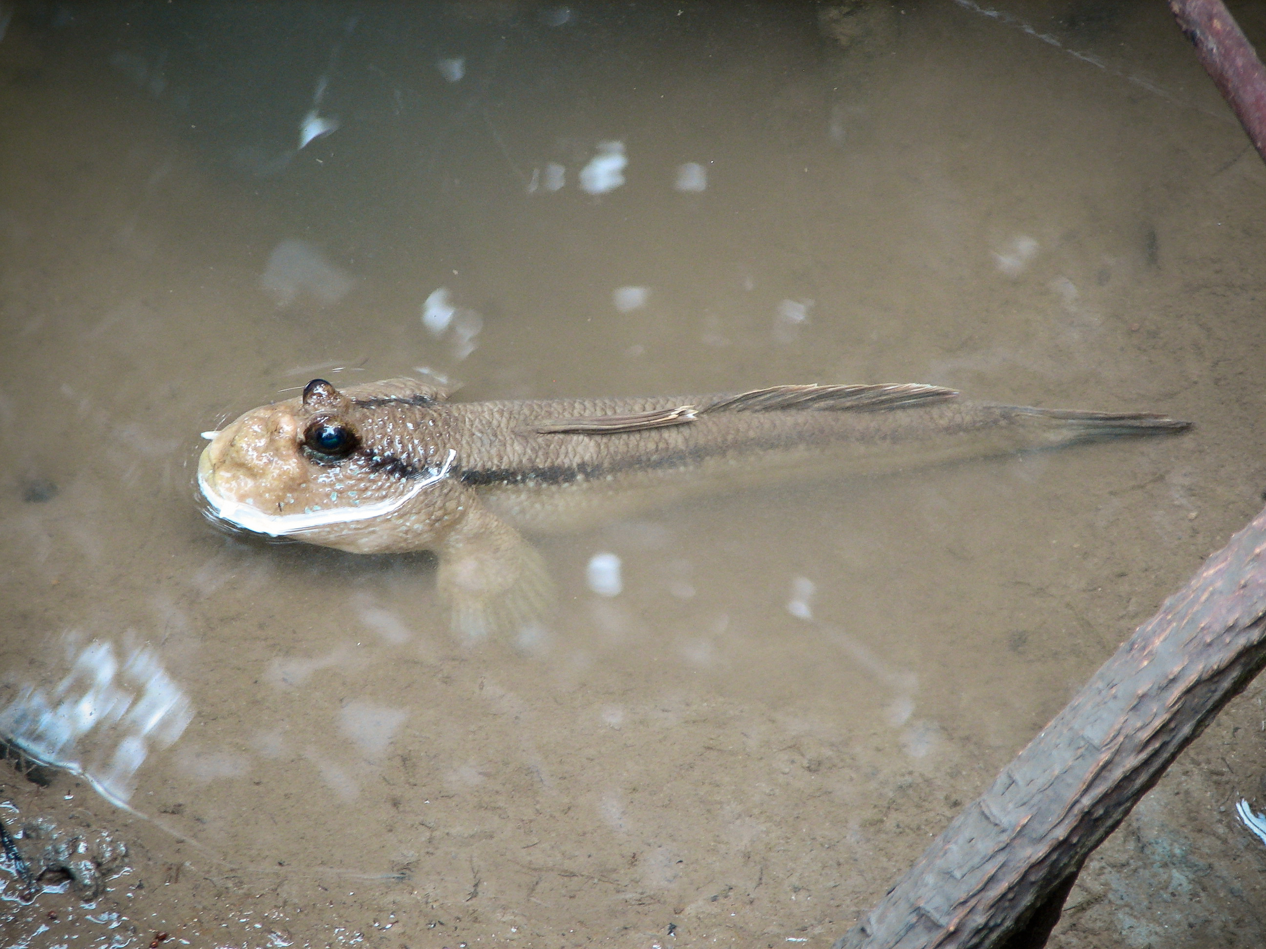 Periophthalmus spilotus, Sam Roi Yot national park, Thailand